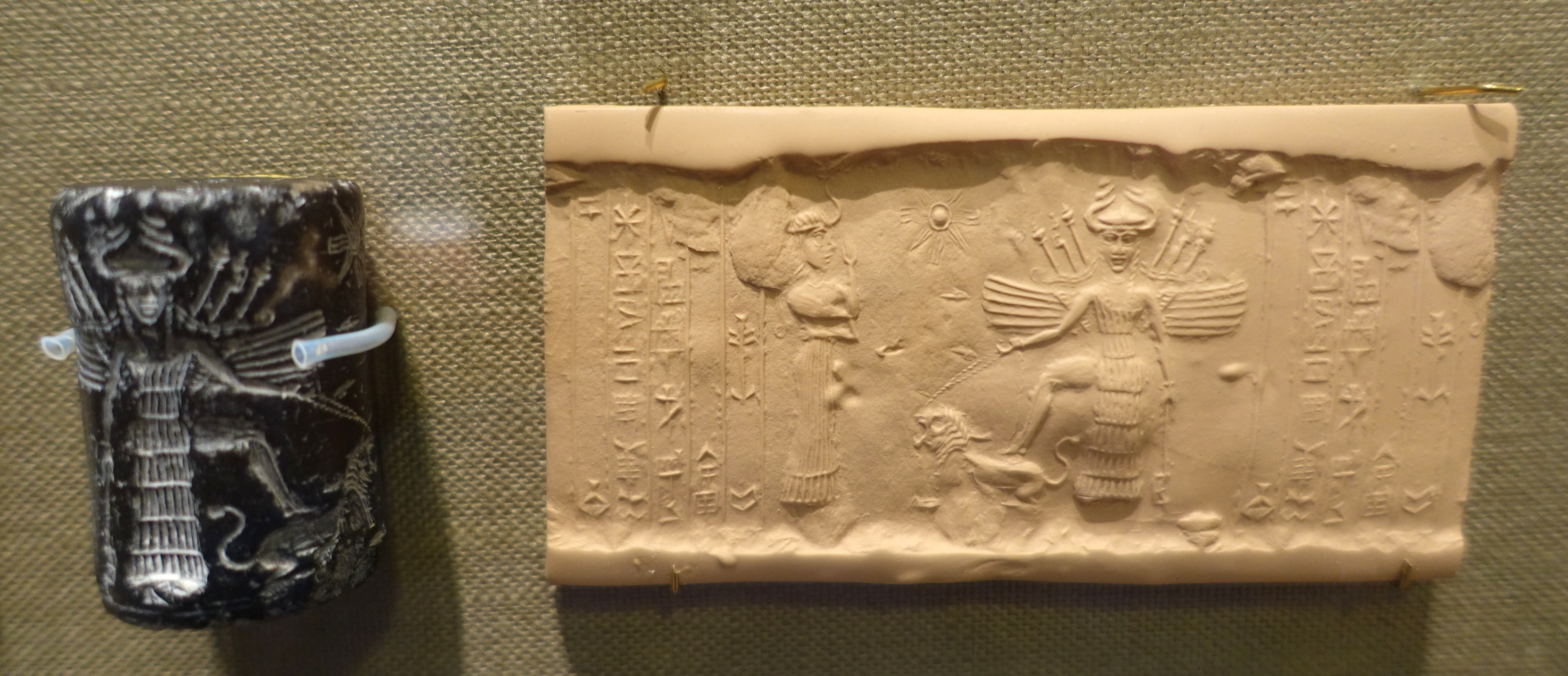 This cylinder seal was dedicated to a little-known goddess, Ninishkun, who is shown interceding on the owner's behalf with the great goddess Ishtar. Ishtar places her right foot upon a roaring lion, which she restrains with a leash. The scimitar in her left hand and the weapons sprouting from her winged shoulders indicate her war-like nature. Stone. Akkadian period, ca. 2330–2150 BC. 4.2 × 2.5 cm. Exhibit in the Oriental Institute Museum, University of Chicago, Chicago, Illinois, USA. This work is old enough so that it is in the public domain.